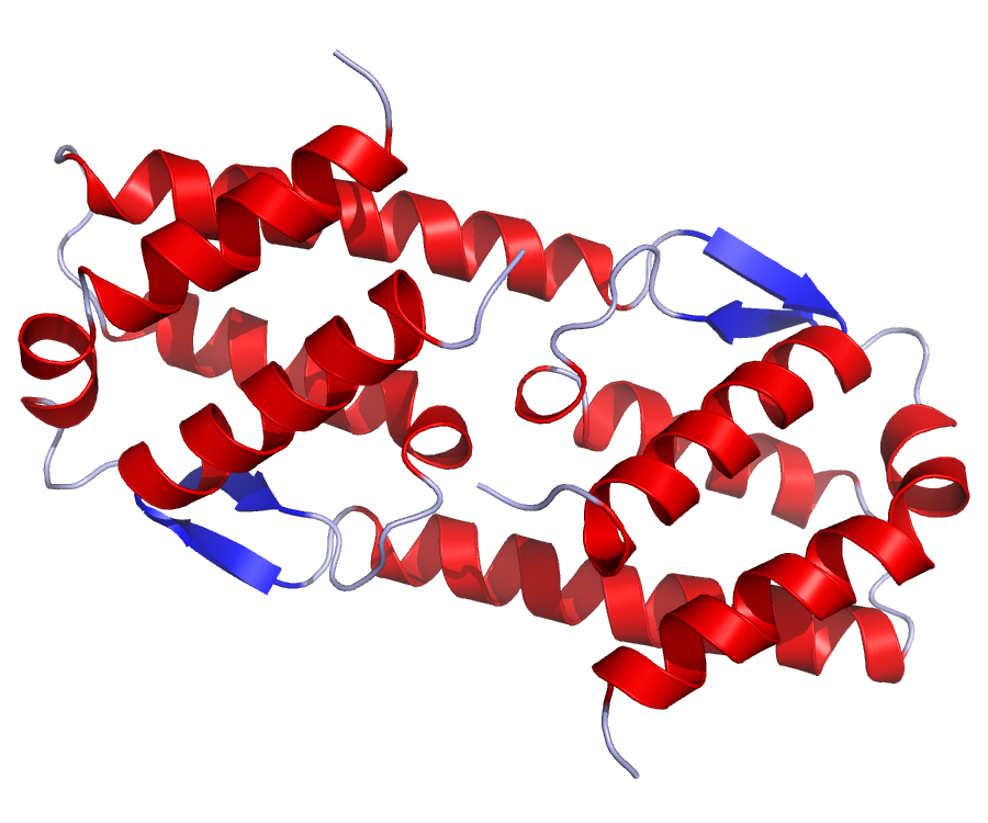 Crystal structure of IL-5 as published in the Protein Data Bank (PDB: 1HUL)